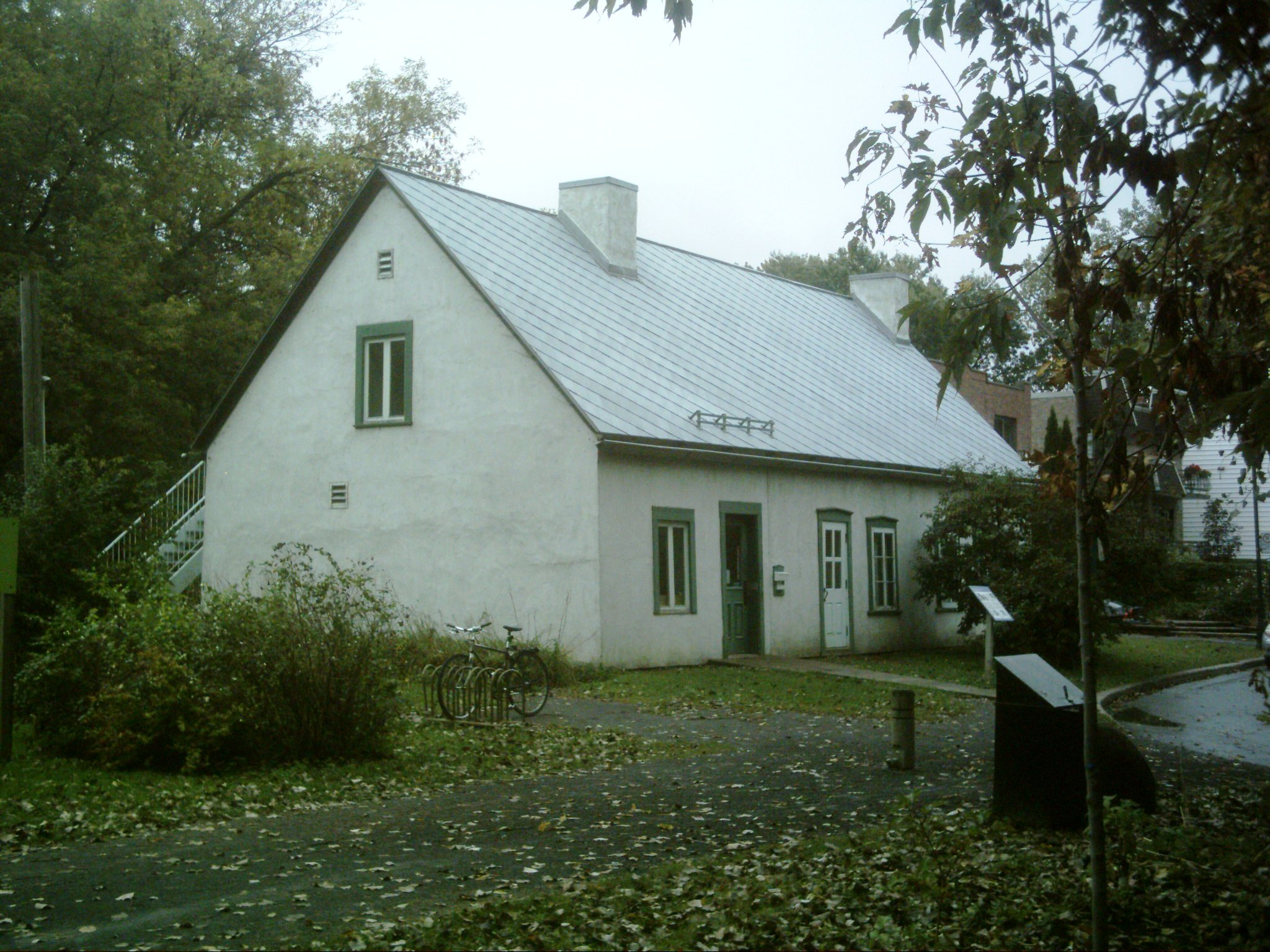 Maison du Pressoir